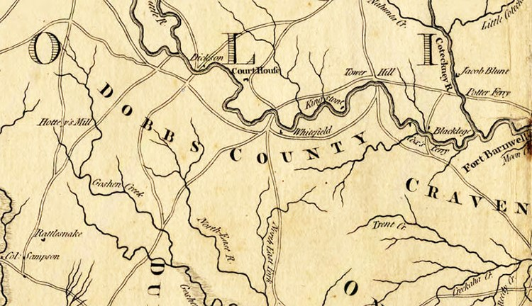 Section of the 1775 map of the Carolinas showing Dobbs County